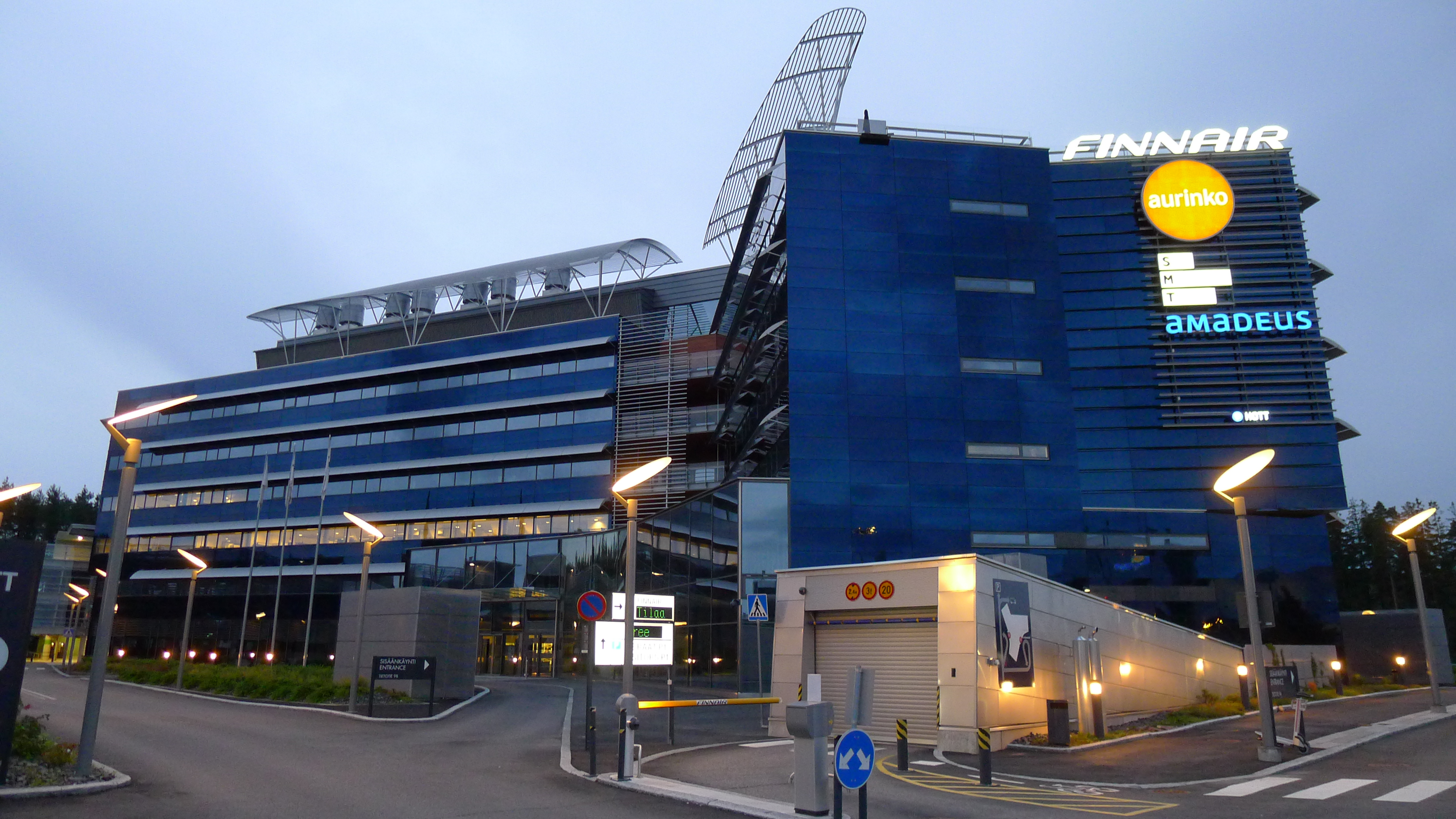 Finnair headquarters